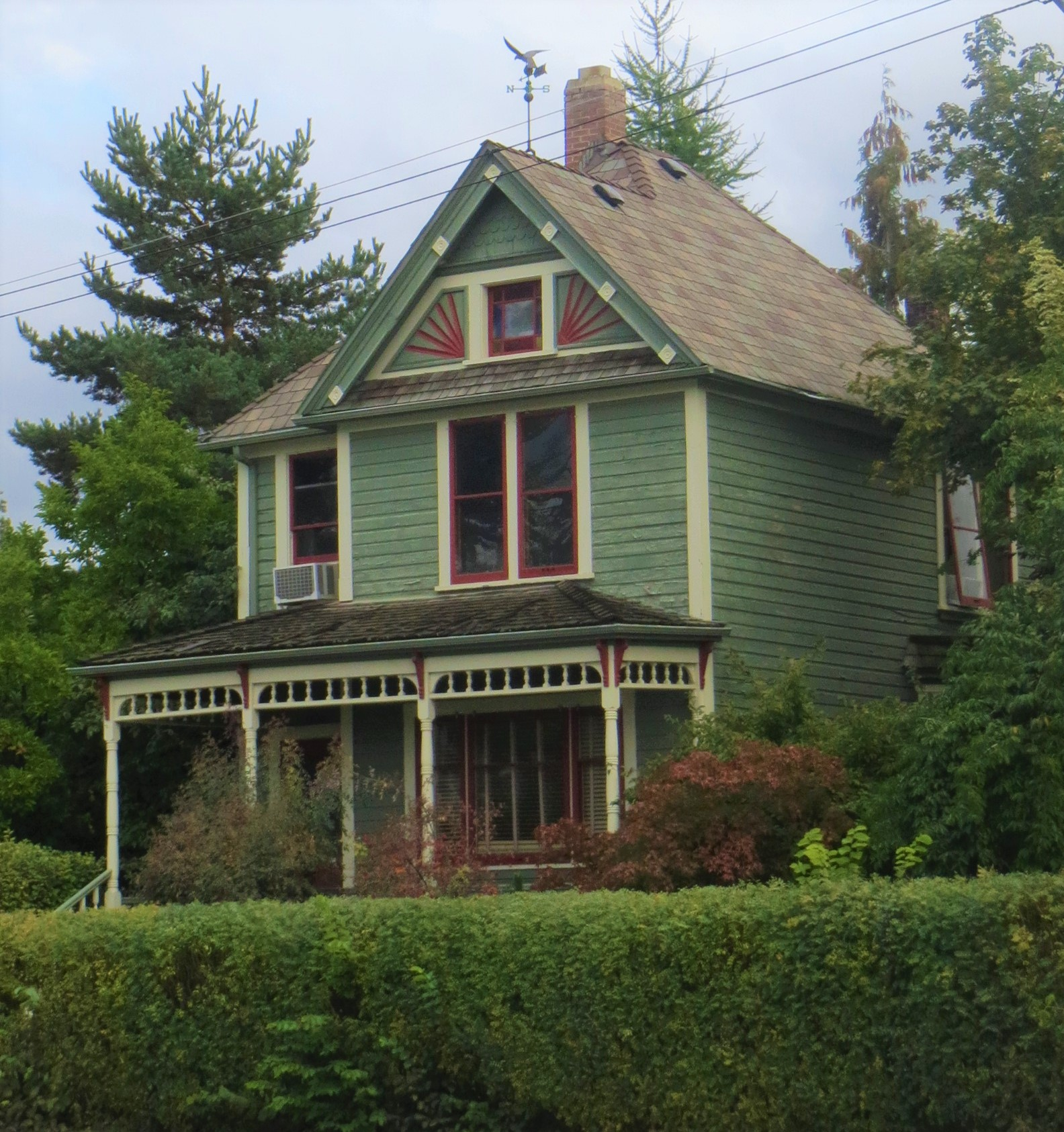 First Crowell House